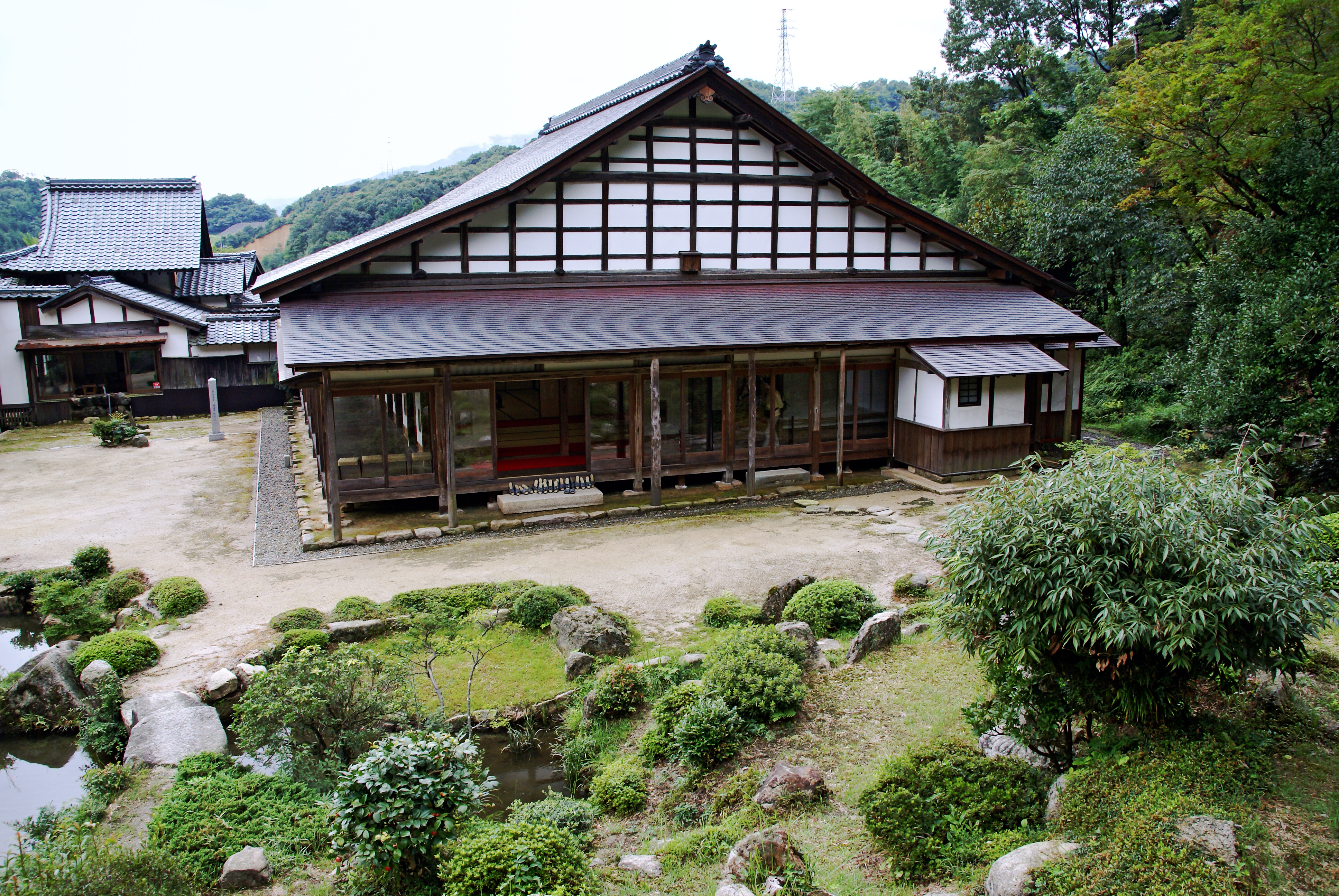 Saifukuji in Tsuruga, Fukui prefecture, Japan